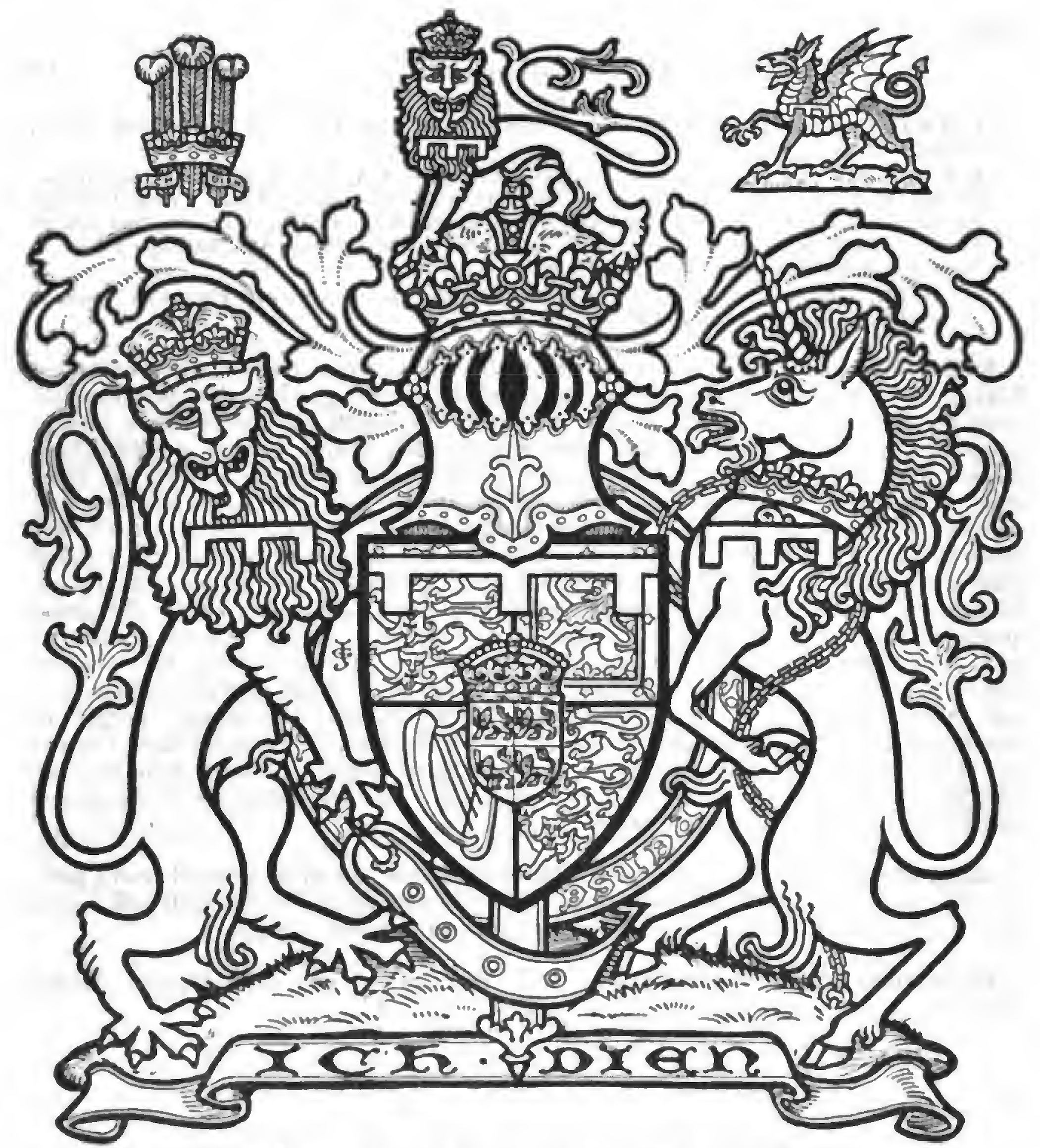 Coat of arms of Edward, the Prince of Wales (1910 – 1936) later King Edward VIII (1914).